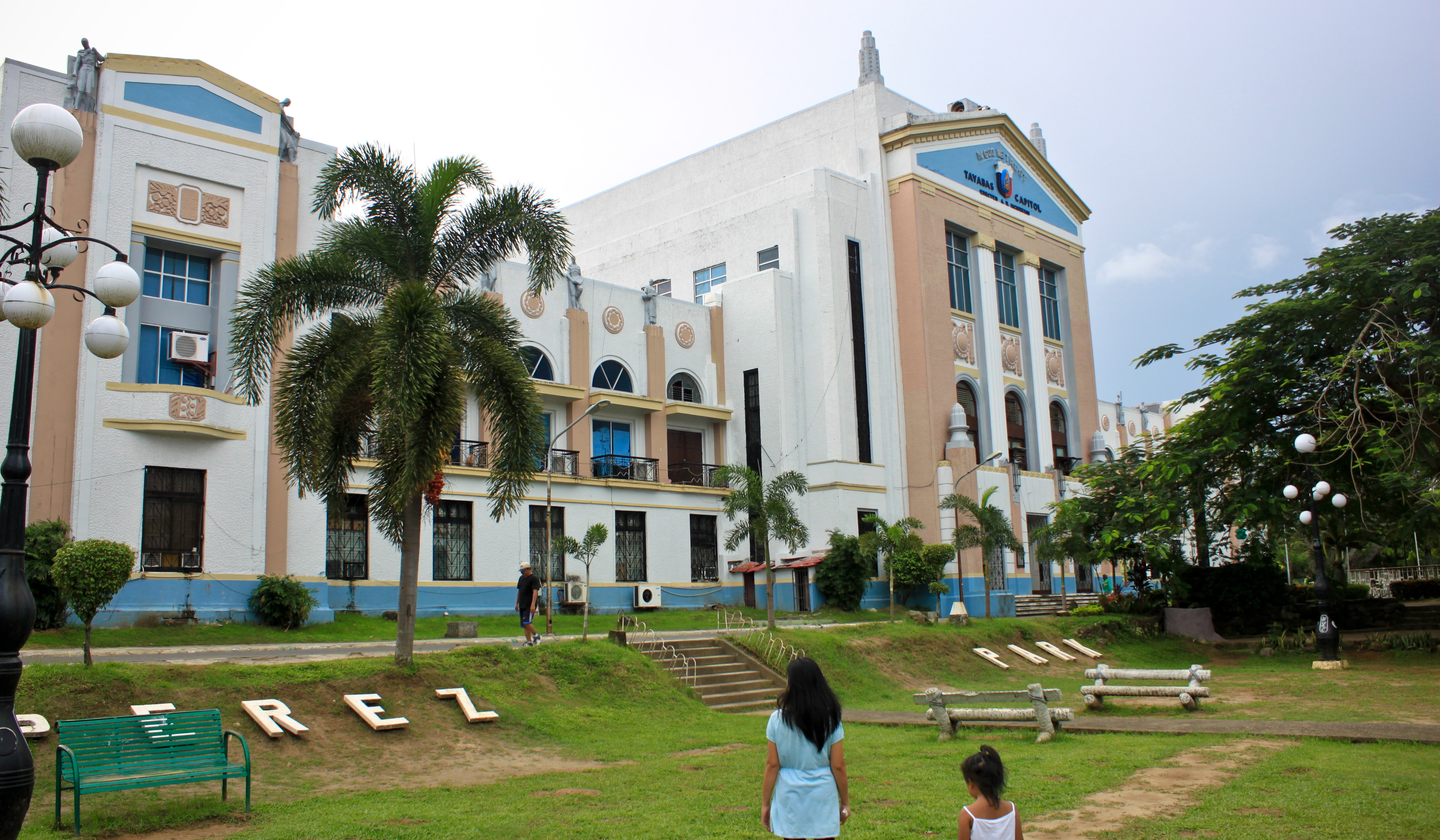 Quezon Provincial Capitol Building (formerly Tayabas Provincial Capitol) was built in 1933.